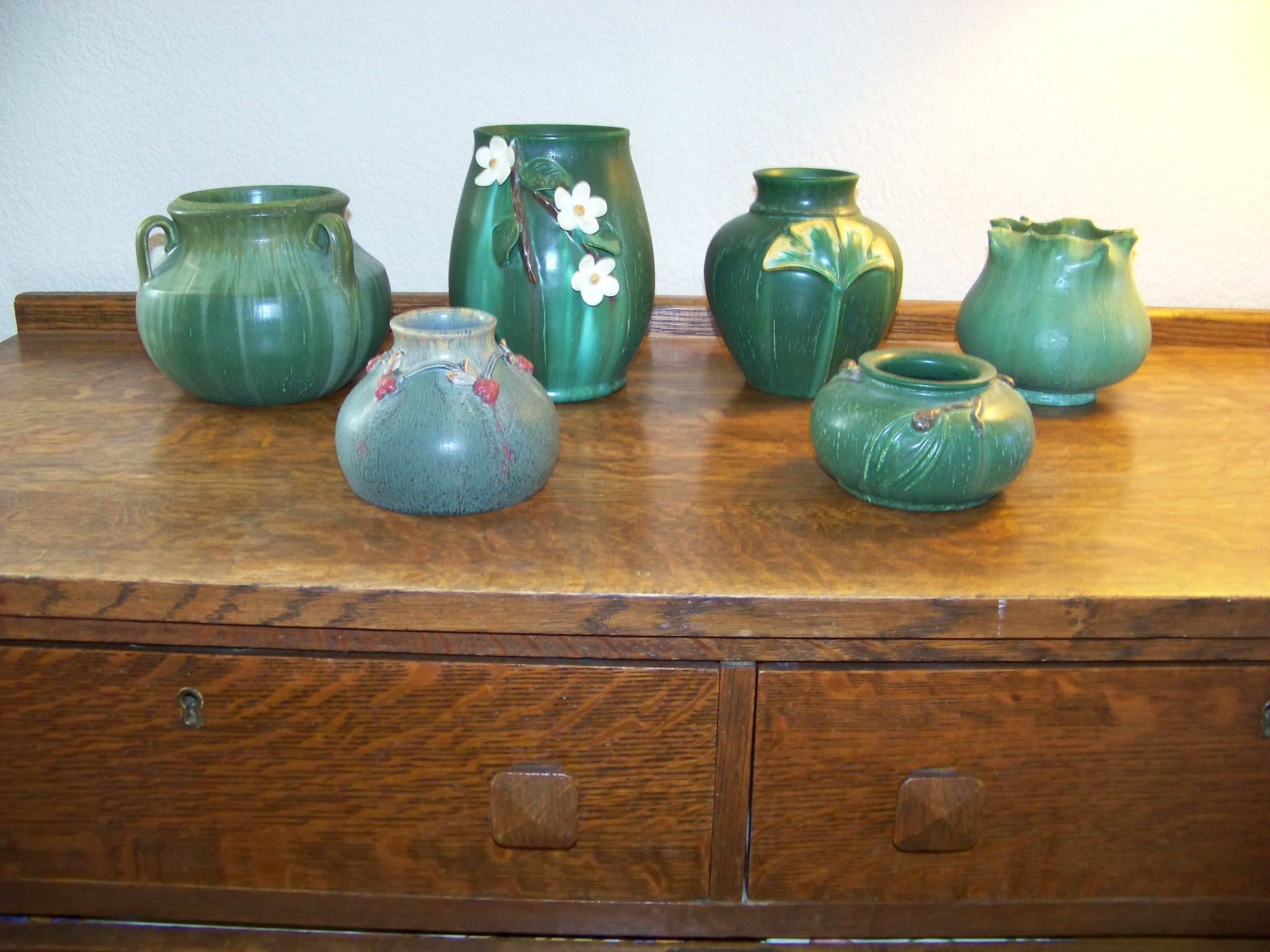 Photograph of a private collection of Ephraim Faience Pottery owned by Jim & Debra Heaphy. Kristin Cramer Zanetti of Ephraim Faience Pottery granted permission by email on 9/9/2009 for us to photograph our collection and upload this photo for use on Wikipedia.